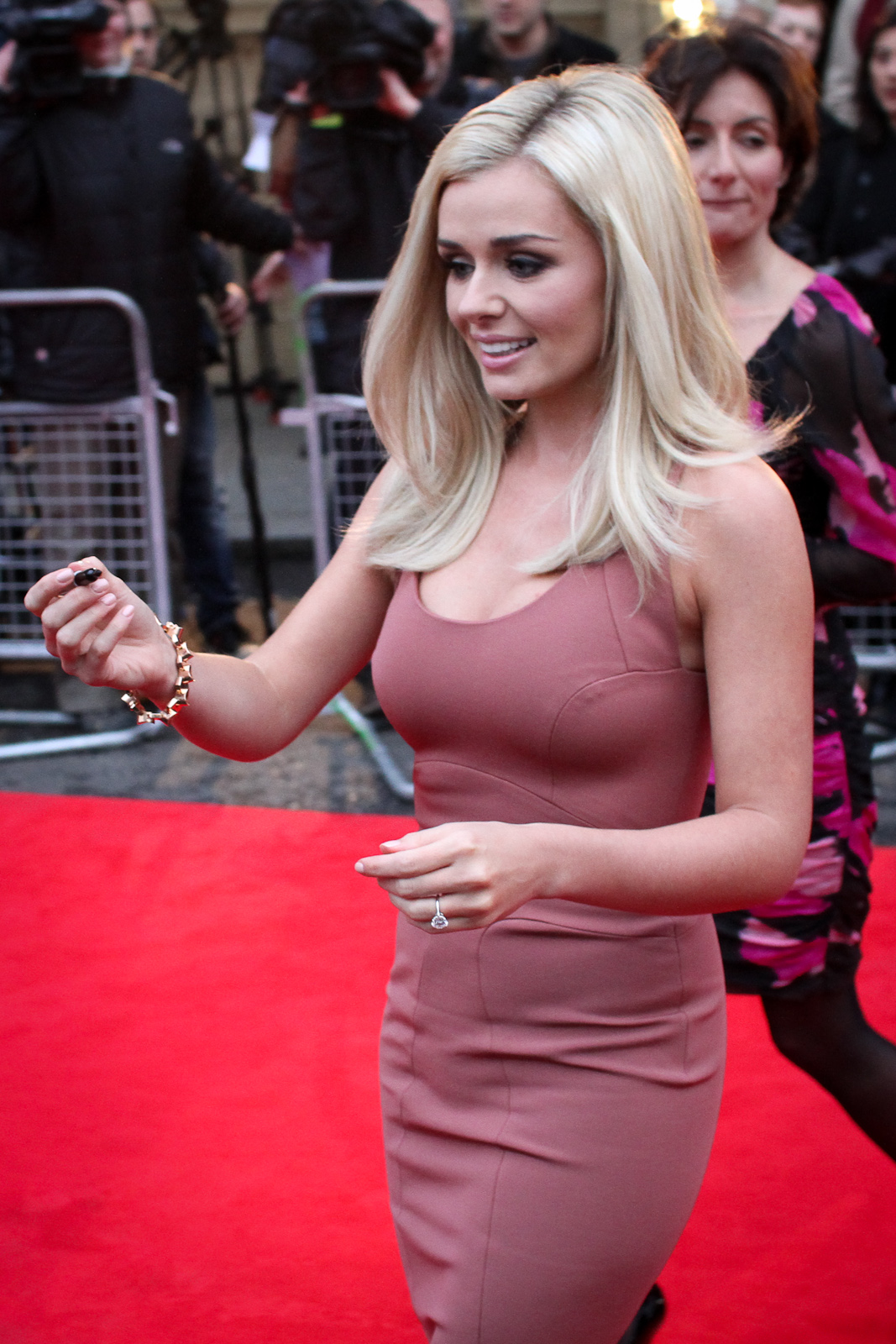 Katherine signing autographs outside the Royal Albert Hall where she performed at Mikhail Gorbachev's 80th birthday concert.